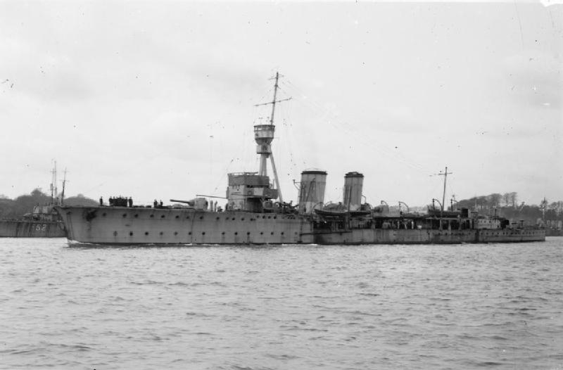 The British light cruiser HMS Constance leaving Devonport for the East Indies.